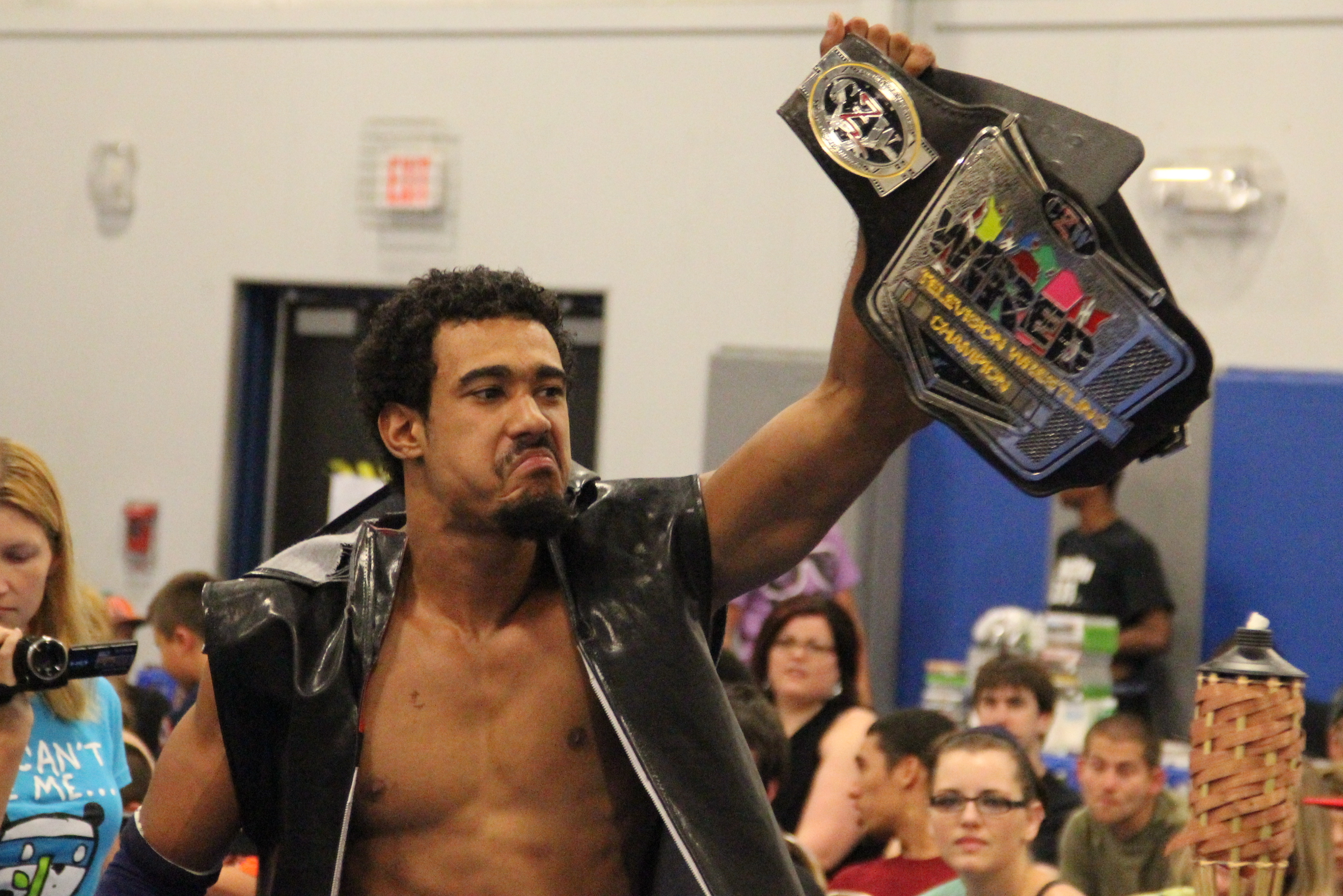 AR Fox with the CZW Wired Television Championship at an NEFW event in Chicopee, Massachusetts, on August 3, 2013. Cropped from original.